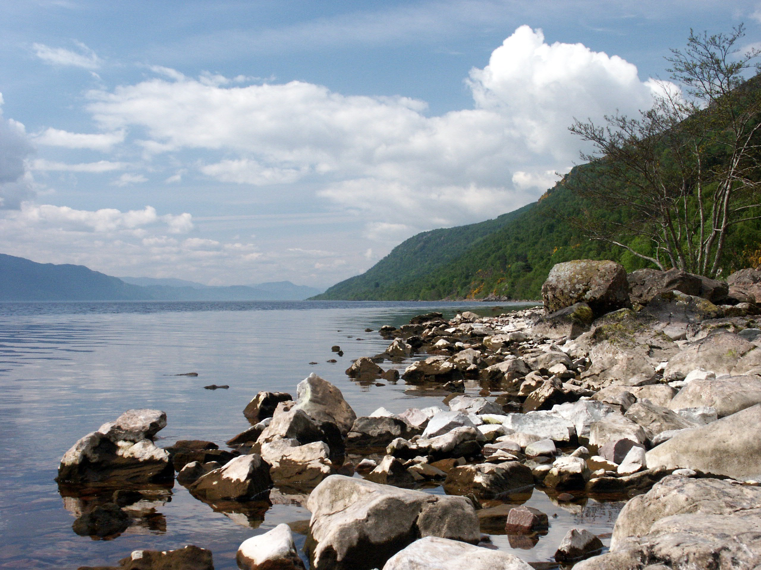 The rocky shoreline of Loch Ness, Scotland